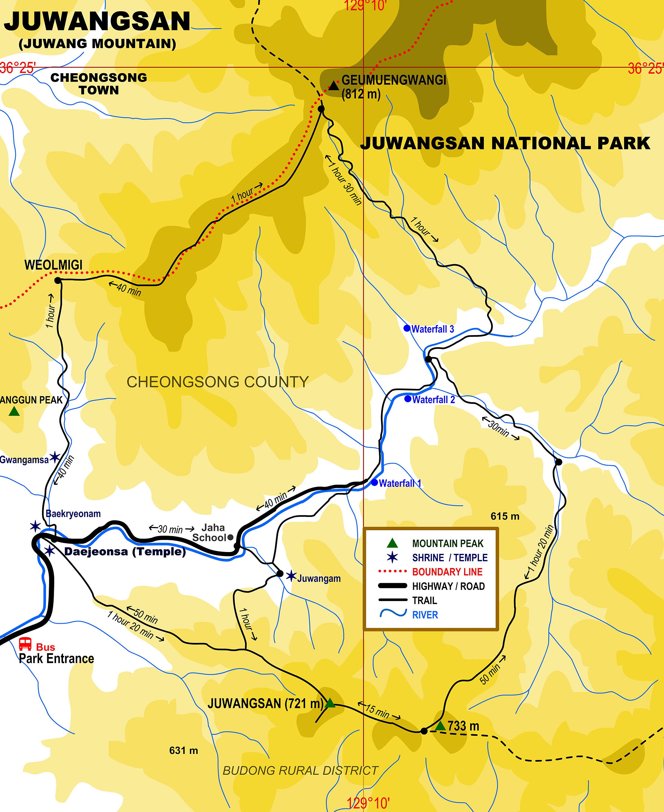 A printable trail map of Juwangsan National Park, South Korea, prepared by Alex Zuccarelli (2007). Click the image for full-resolution version.